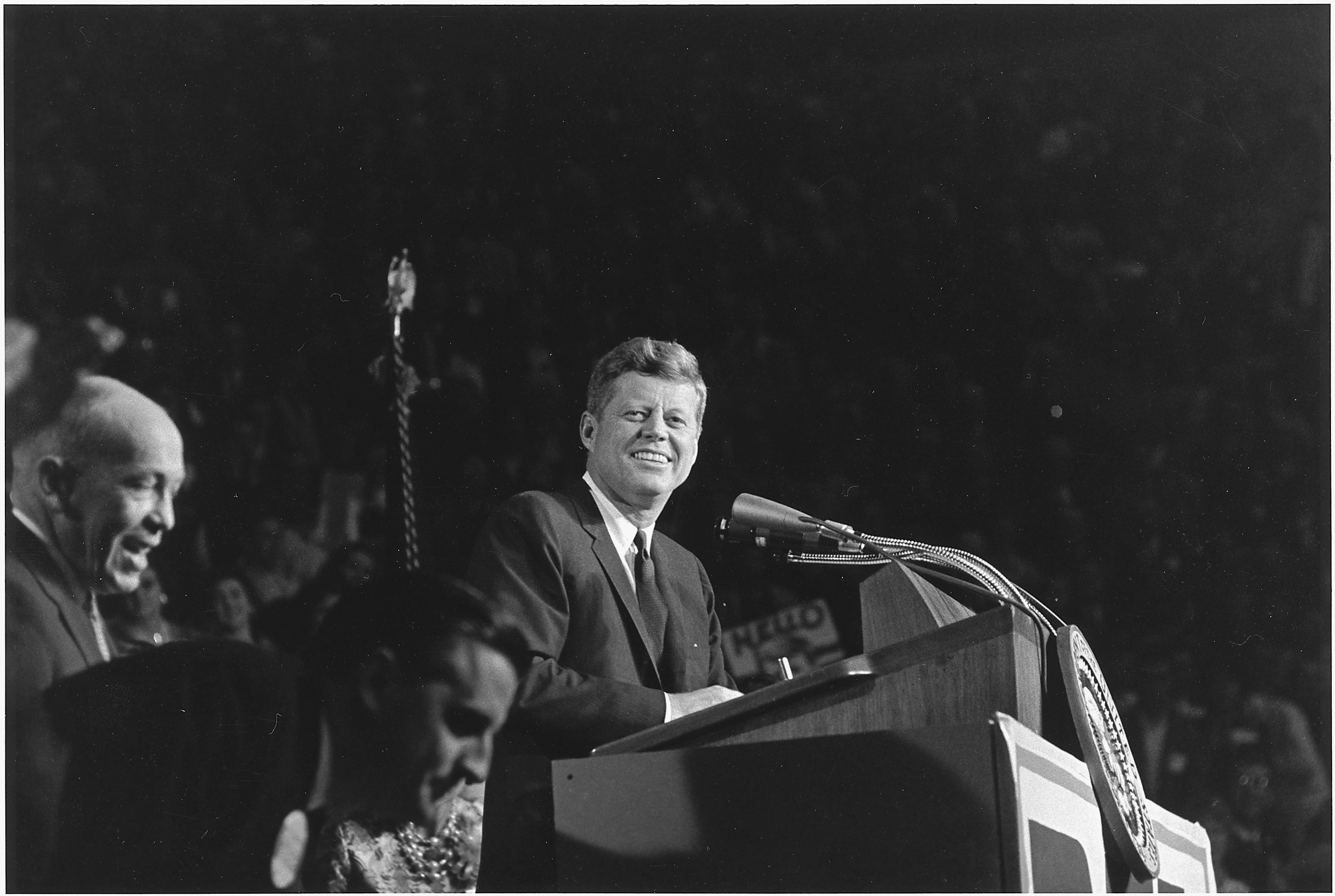 President addresses "Bean Feed". State Lieutenant Governor Karl Rolvaag (not George Farr as claimed in the NARA title), Minnesota Attorney General Walter F. Mondale, President Kennedy. St. Paul, MN, Hippodrome.